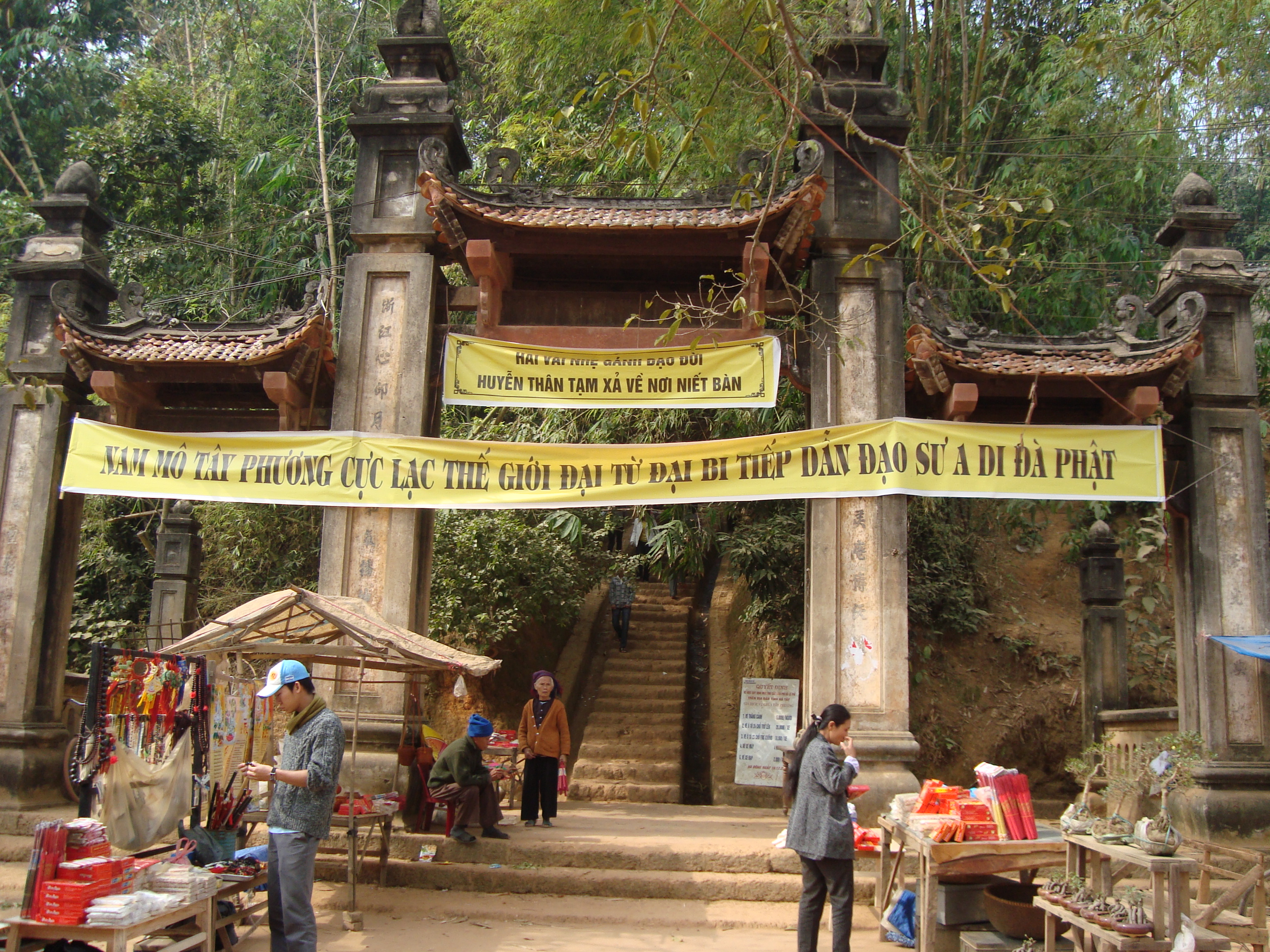 The gate of Tây Phương Buddhist Temple, Thạch Thất District, Hanoi, Vietnam.